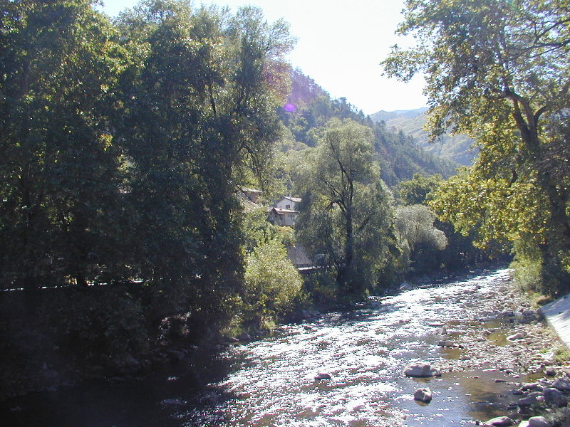 Chepelare River at Bachkovo in Bulgaria